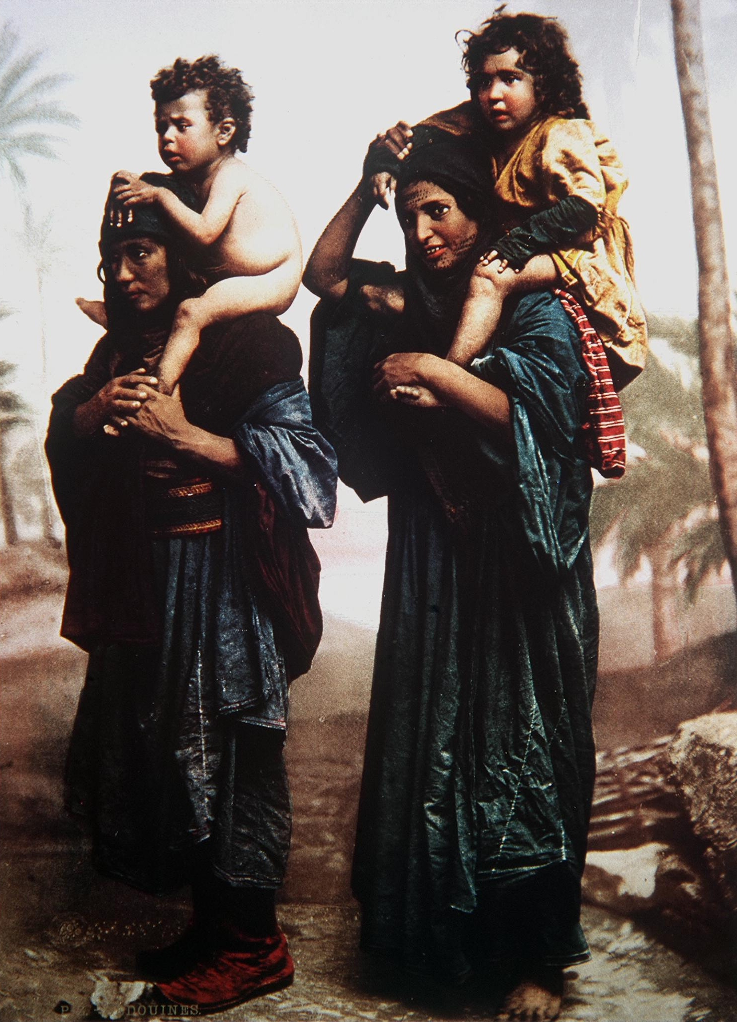 Bedouin mothers carrying their children on their shoulders. Standard practice watercolor painted, black and white photo taken in the late 19th century by the French photographer Félix Bonfils